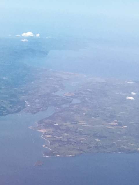 Aerial view of the Menai Strait.